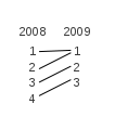 Alice Munro: "Free Radicals" (2008 / 2009), section variants